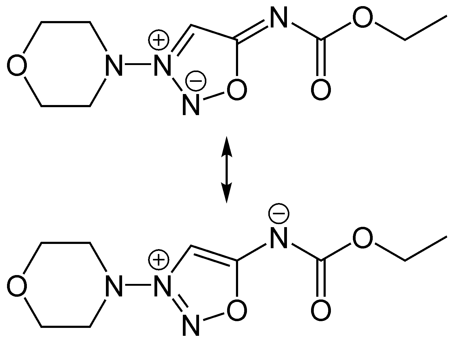 Skeletal formula of molsidomine.